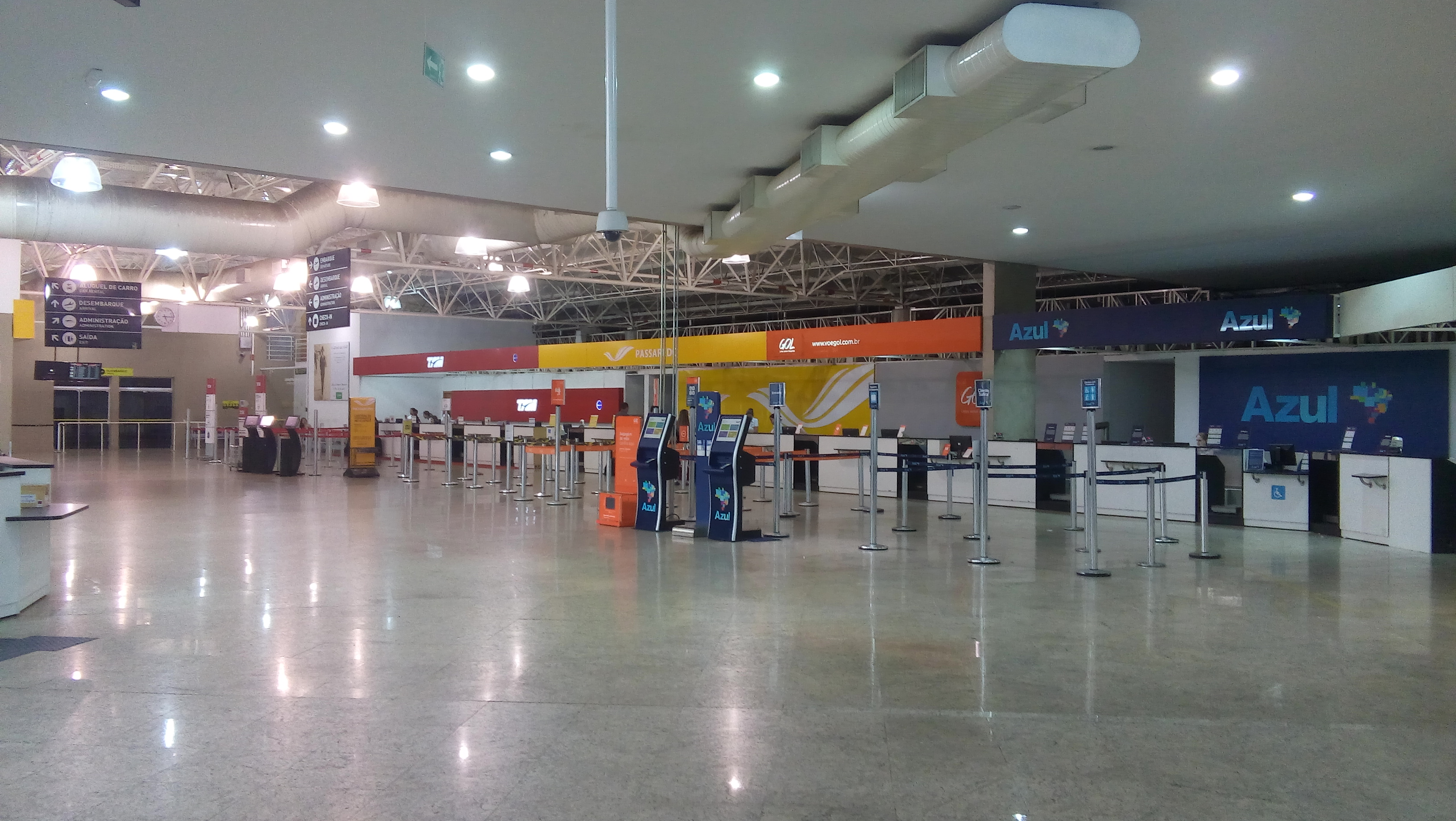 Check-in area - Cias. Airlines - Airport Leite Lopes de Ribeirão Preto